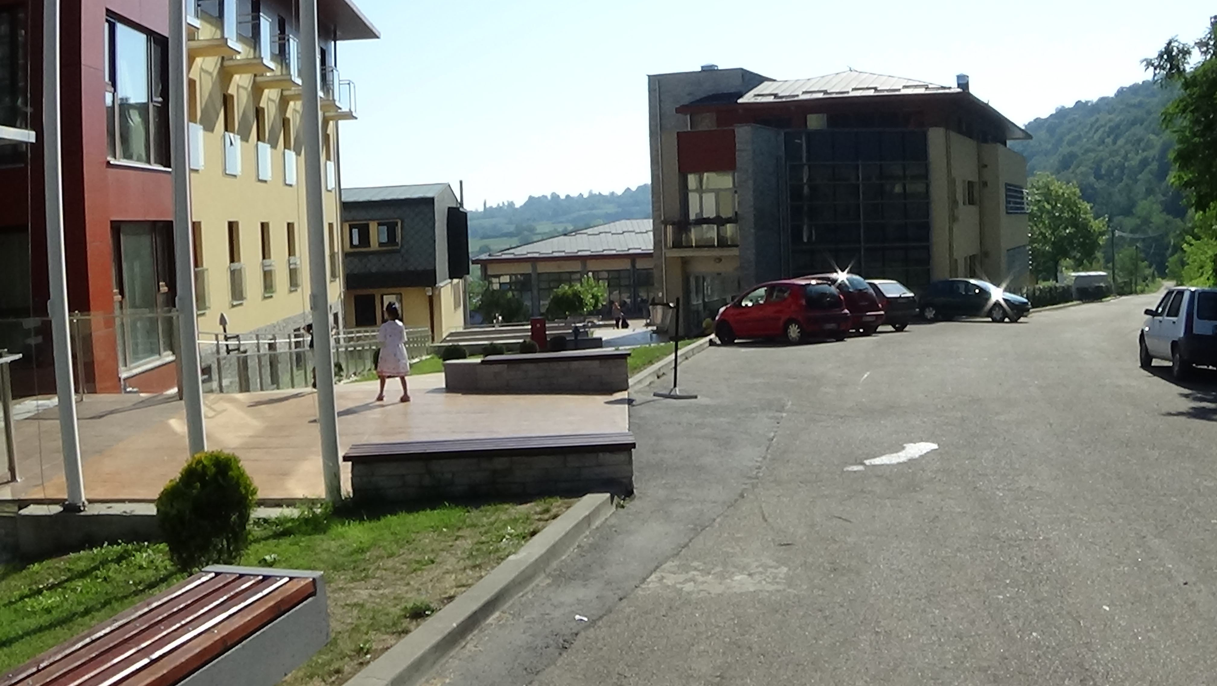 Petnica Research Station buildings.